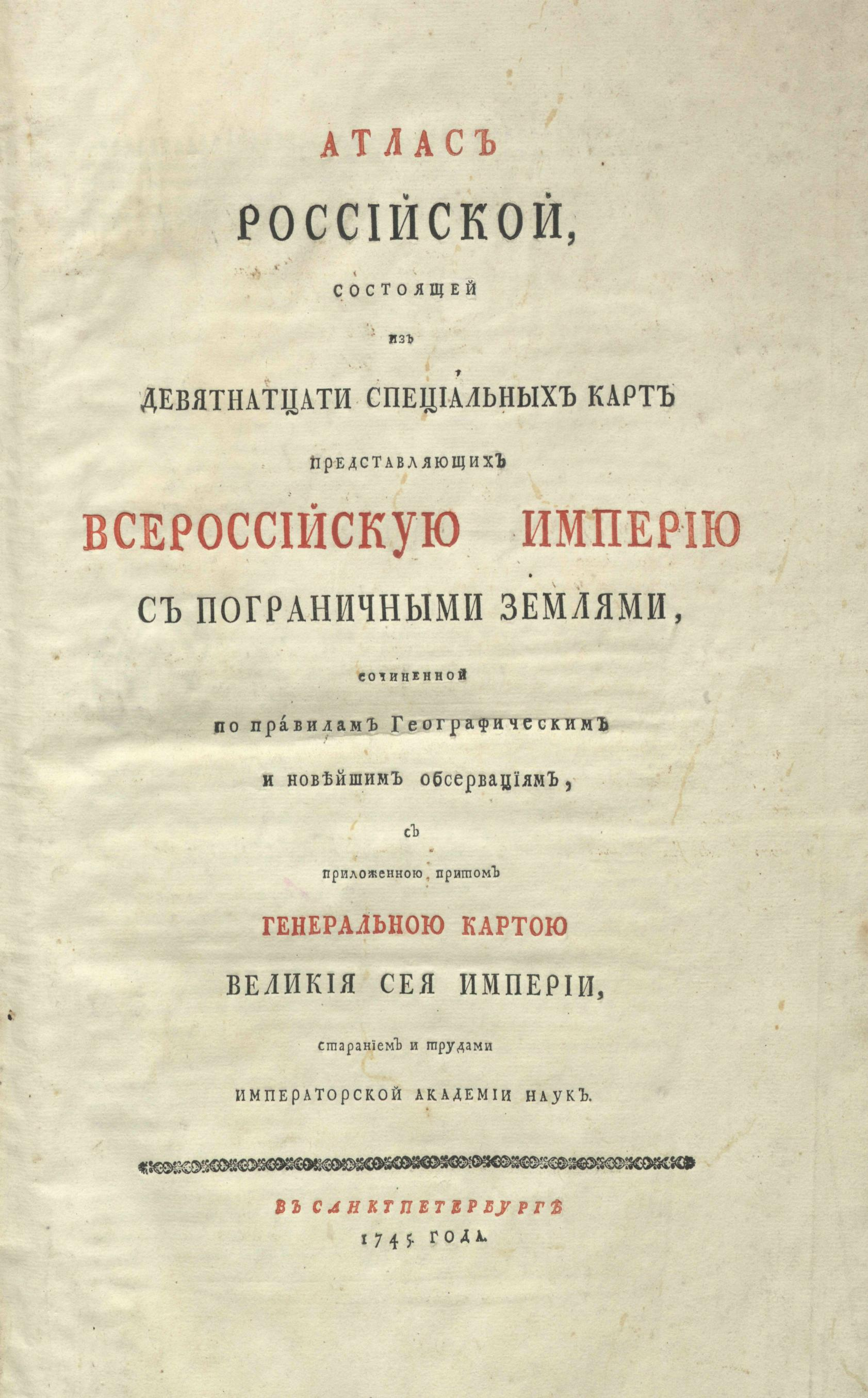 Title-page of first official geographic atlas of the Russian Empire (1745).